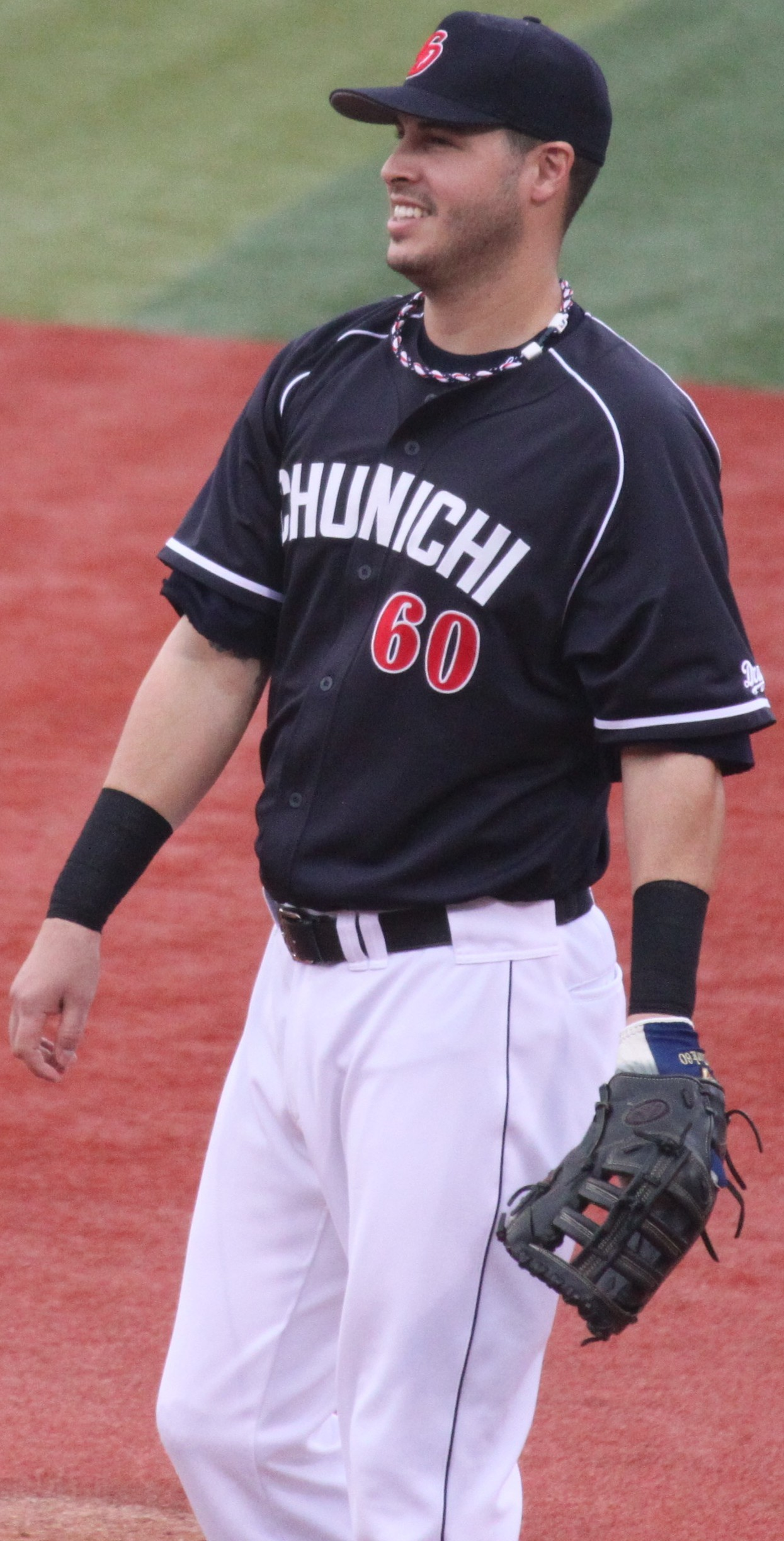 Matt Clark, infielder of the Chunichi Dragons, at Yokohama Stadium.